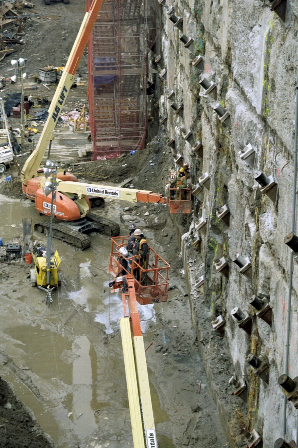 New York, NY, March 15, 2002 -- Personnel at Ground Zero tie back and reinforce the exposed slurry wall. The structure, which runs the perimeter of the crater, is monitored around the clock for movement and is holding up well. Its function is to counter the natural action of ground soil to push inward, into the hole where the World Trade Center complex once stood. Photo by Larry Lerner/ FEMA News Photo